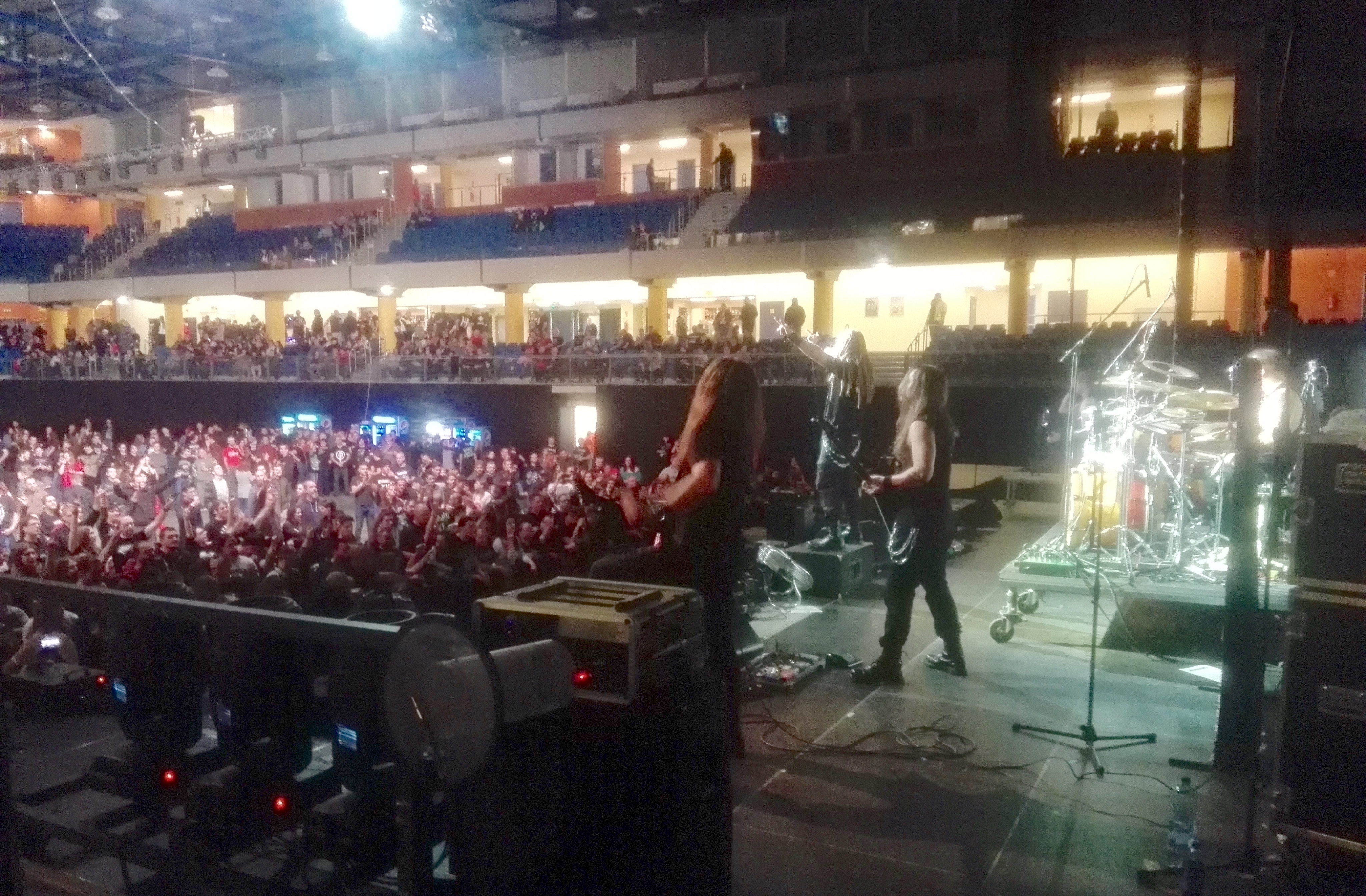 Angerseed playing as the opening band in the Főnix hall, Debrecen (Hu) for the Hungarian rock band Tankcsapda's concert